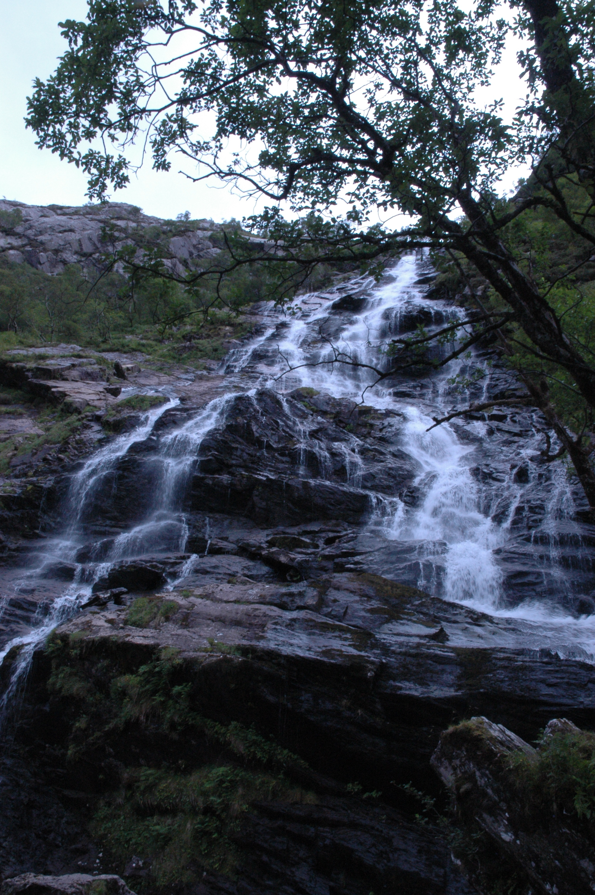 A view looking up the Steall Waterfall in Glen Nevis, Scotland, GB